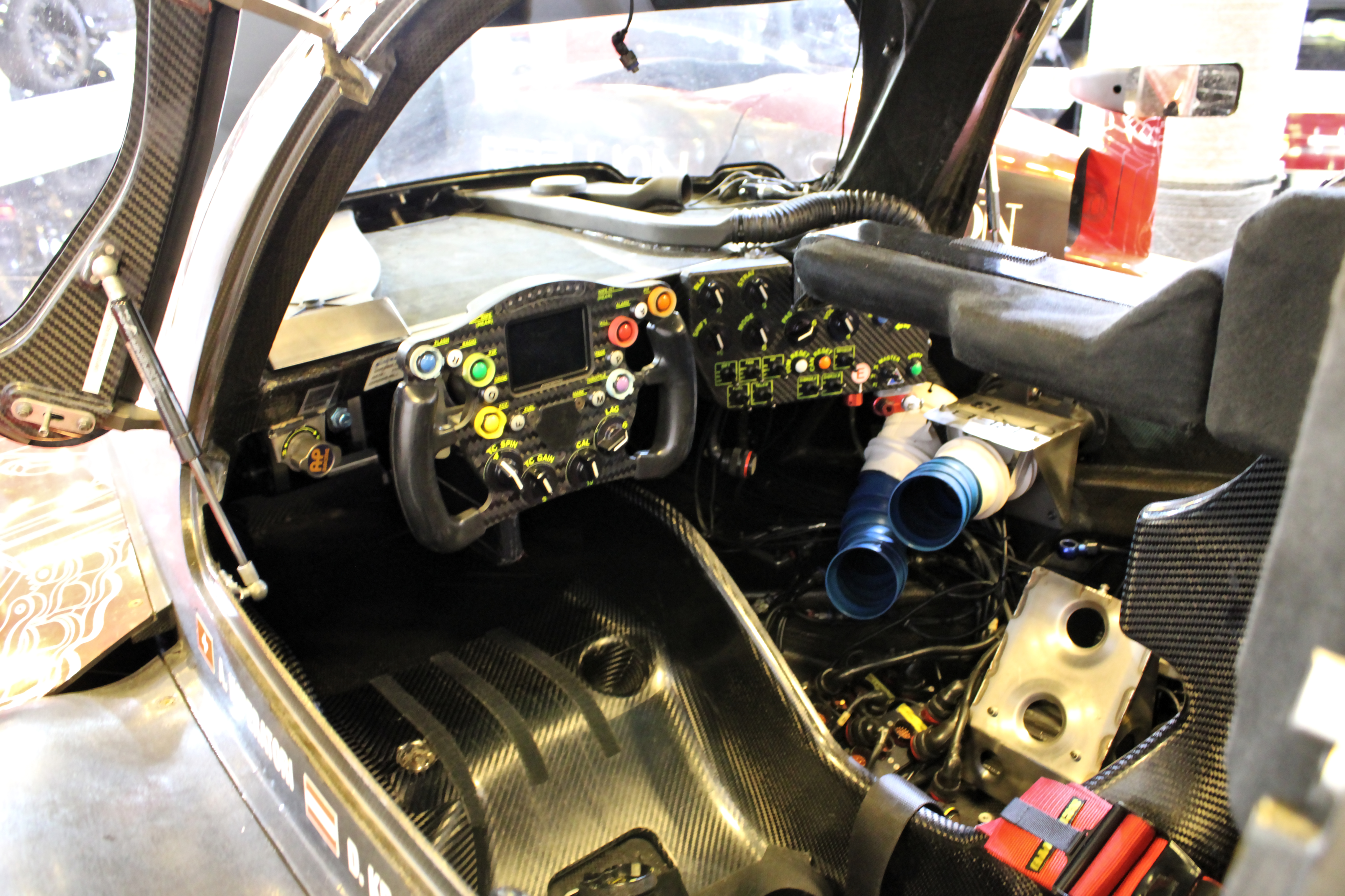 Rebellion R-One LMP1 at Top Marques 2019